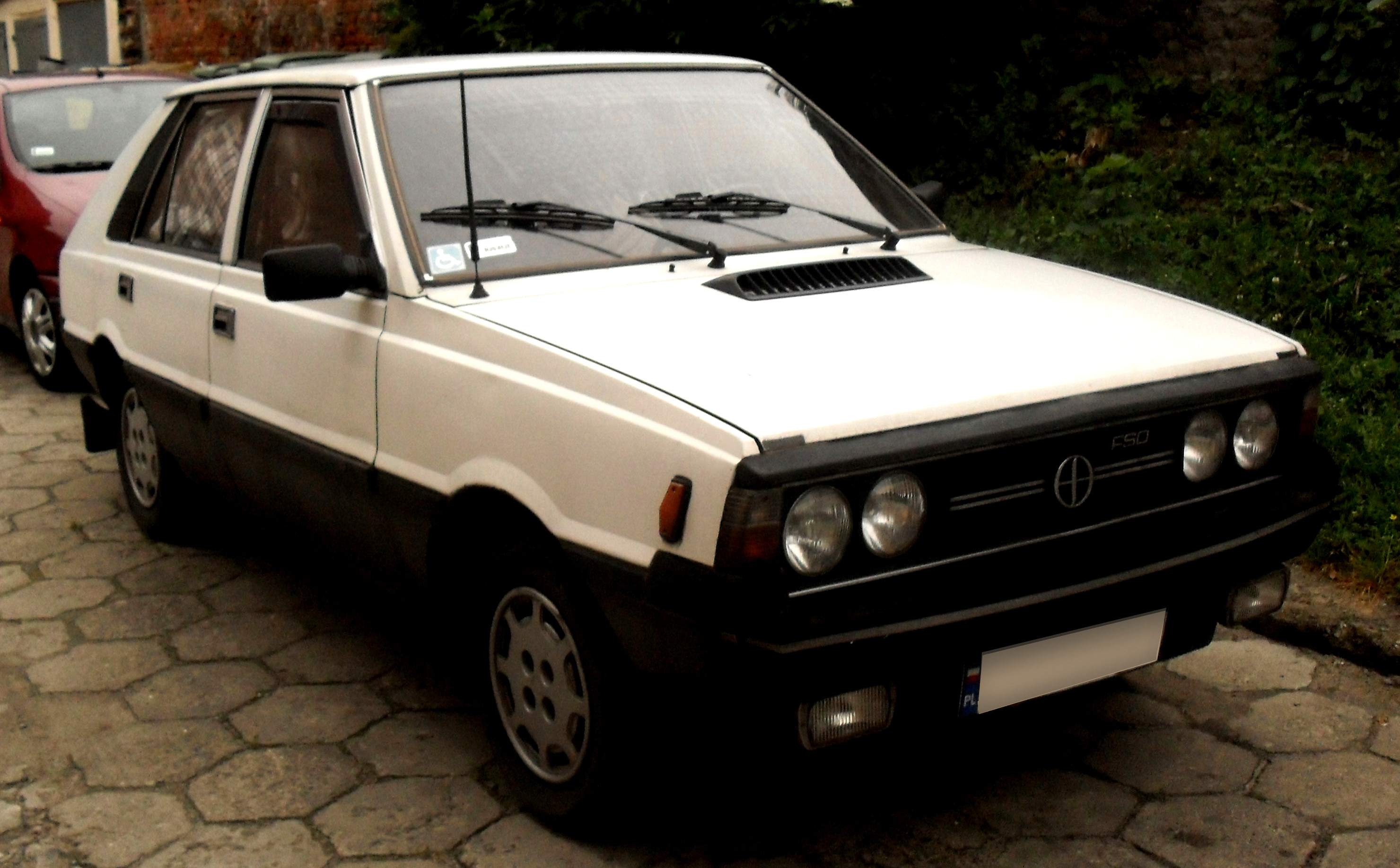 FSO Polonez MR'83 seen in Jasło, Poland.